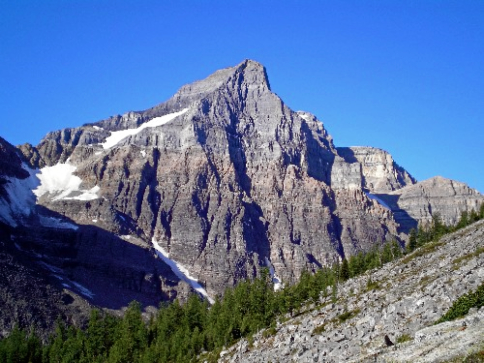 The northeast face of Haddo Peak seen from the slopes of Fairview Mountain above Saddle Pass on August 7, 2009